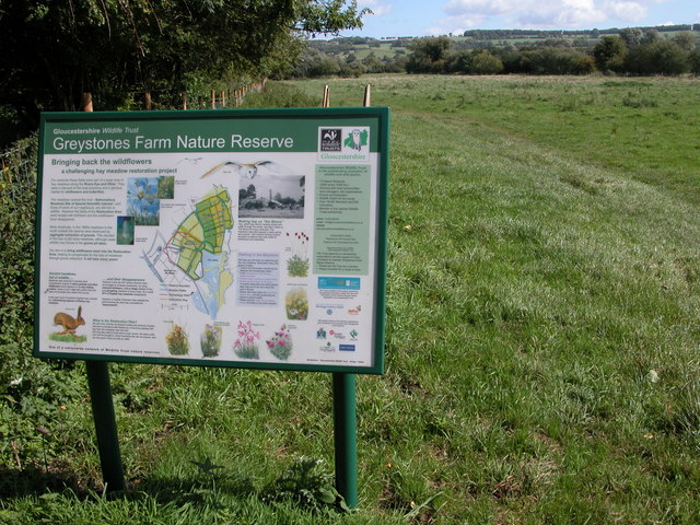 Greystone Farm Nature Reserve. In the meadows between Bourton-on-the-Water and Wyck Rissington is Greystone Farm Nature Reserve. The area is marked on the OS map as Salmonsbury Meadows Nature Reserve and is an SSSI.